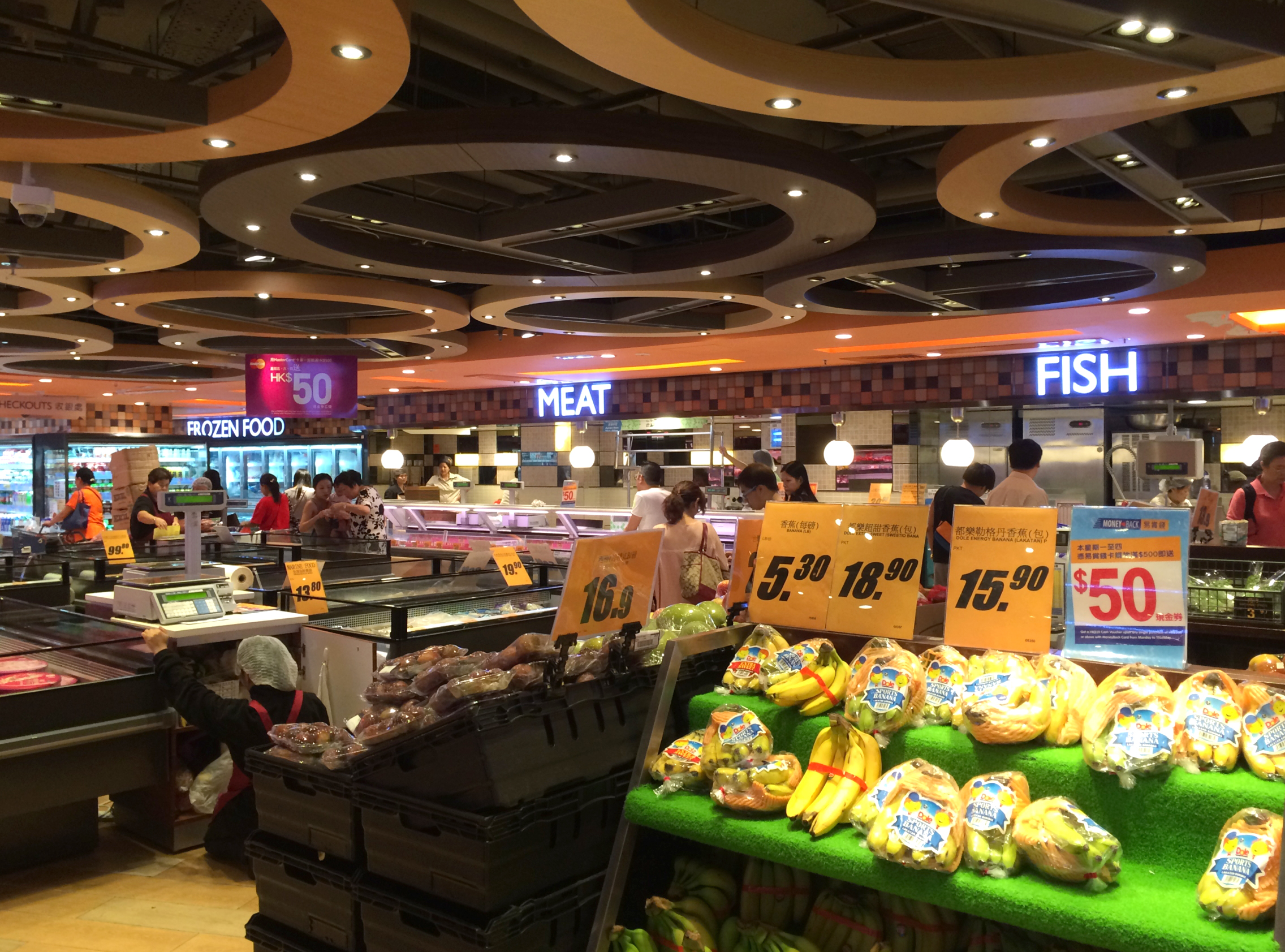 Taste in KOLOUR Yuen Long interior